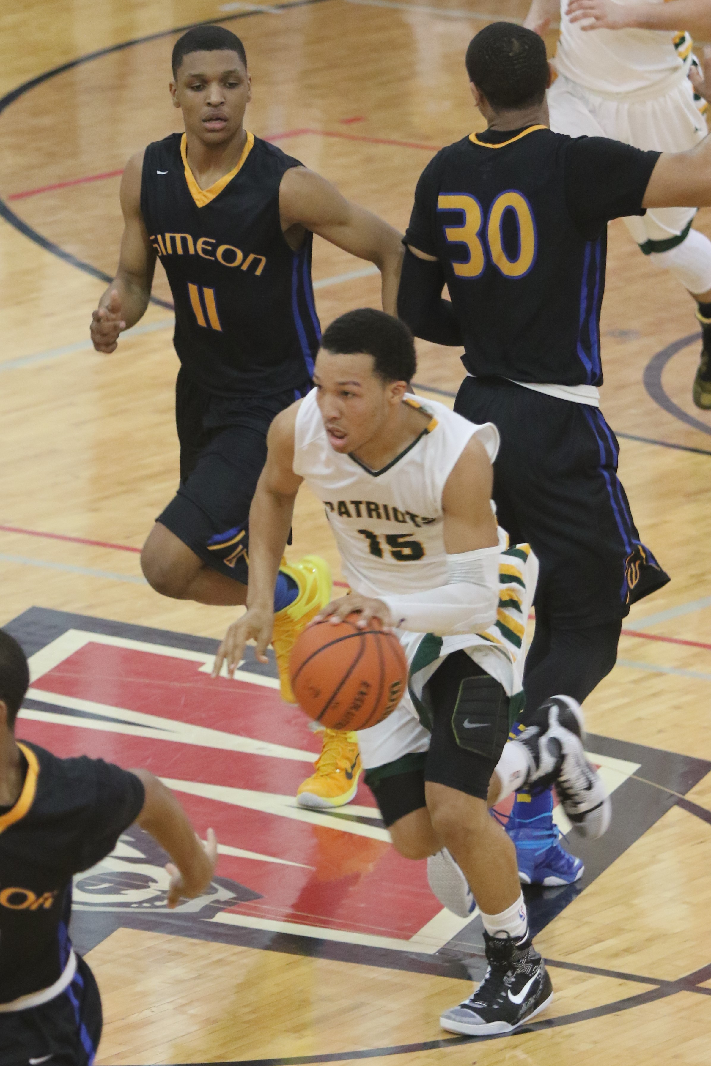 Jalen Brunson of Stevenson on a fast break ahead of Zach Norvell and Ed Morrow